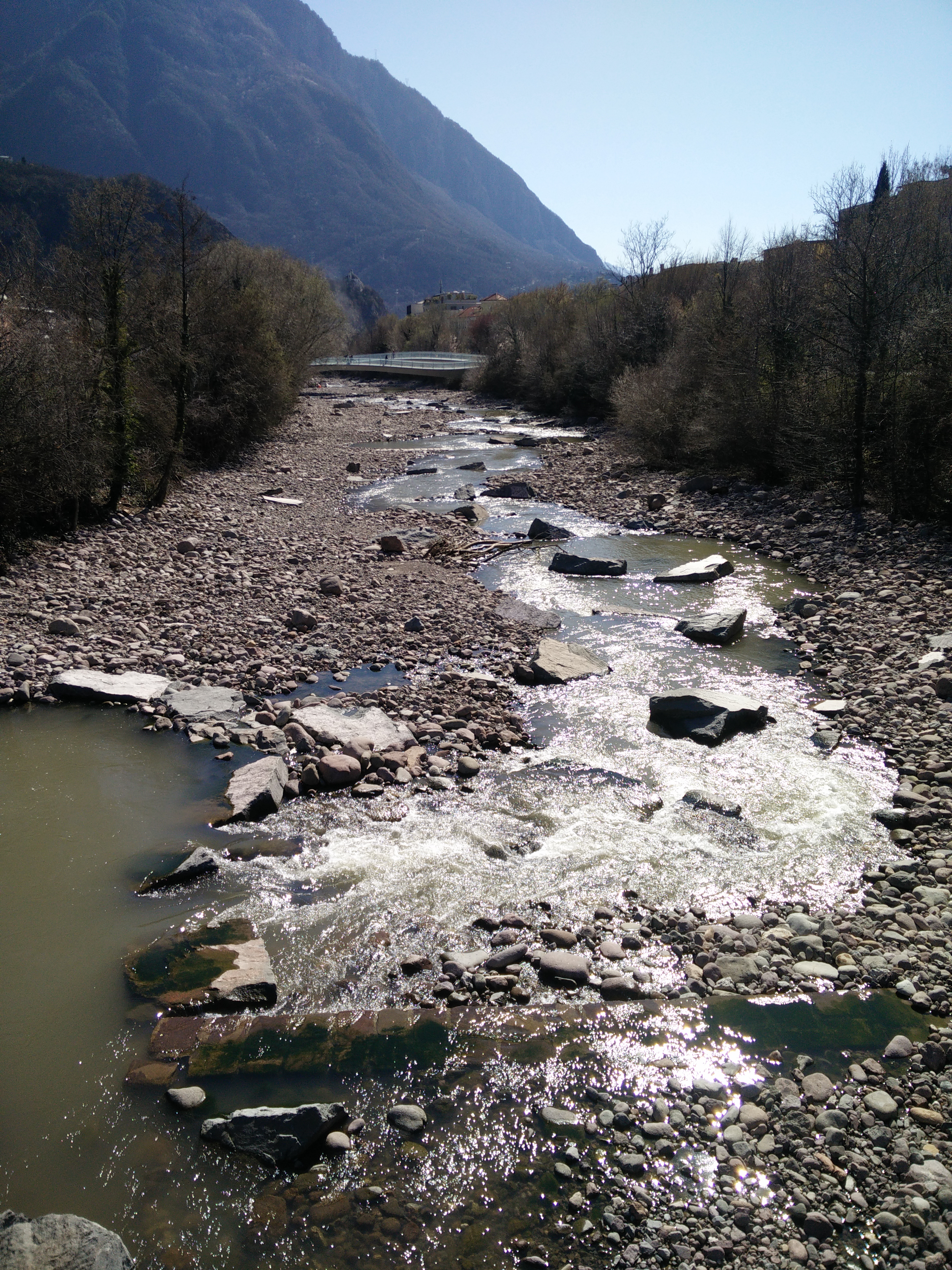 Torrente Talvera dopo i lavori di rinaturalizzazione del 2015-2016 a valle del ponte ciclopedonale del Lungotalvera S. Quirino.